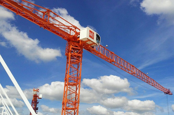 TDK-16.300